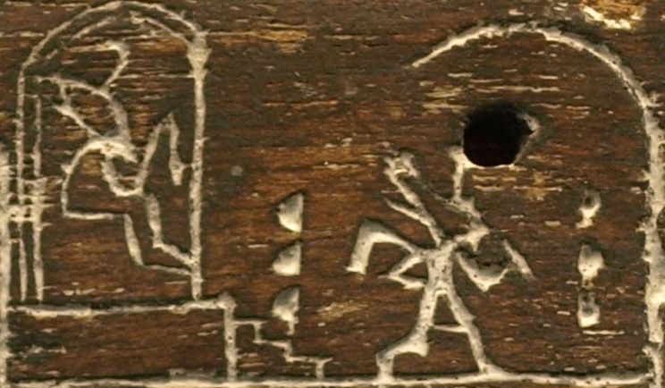 Ebony label depicting the pharaoh Den, found in his tomb in Abydos, circa 3000 BC. Top register depicts the king running in his Heb Sed festival as well as seated on a throne. Lower register depicts the destruction of enemy strongholds and the taking of captives. EA 32650.